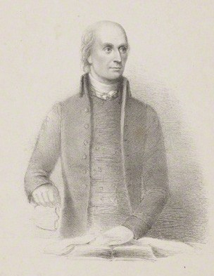 Portrait of Joseph Kinghorn (1766–1832), English Baptist minister.